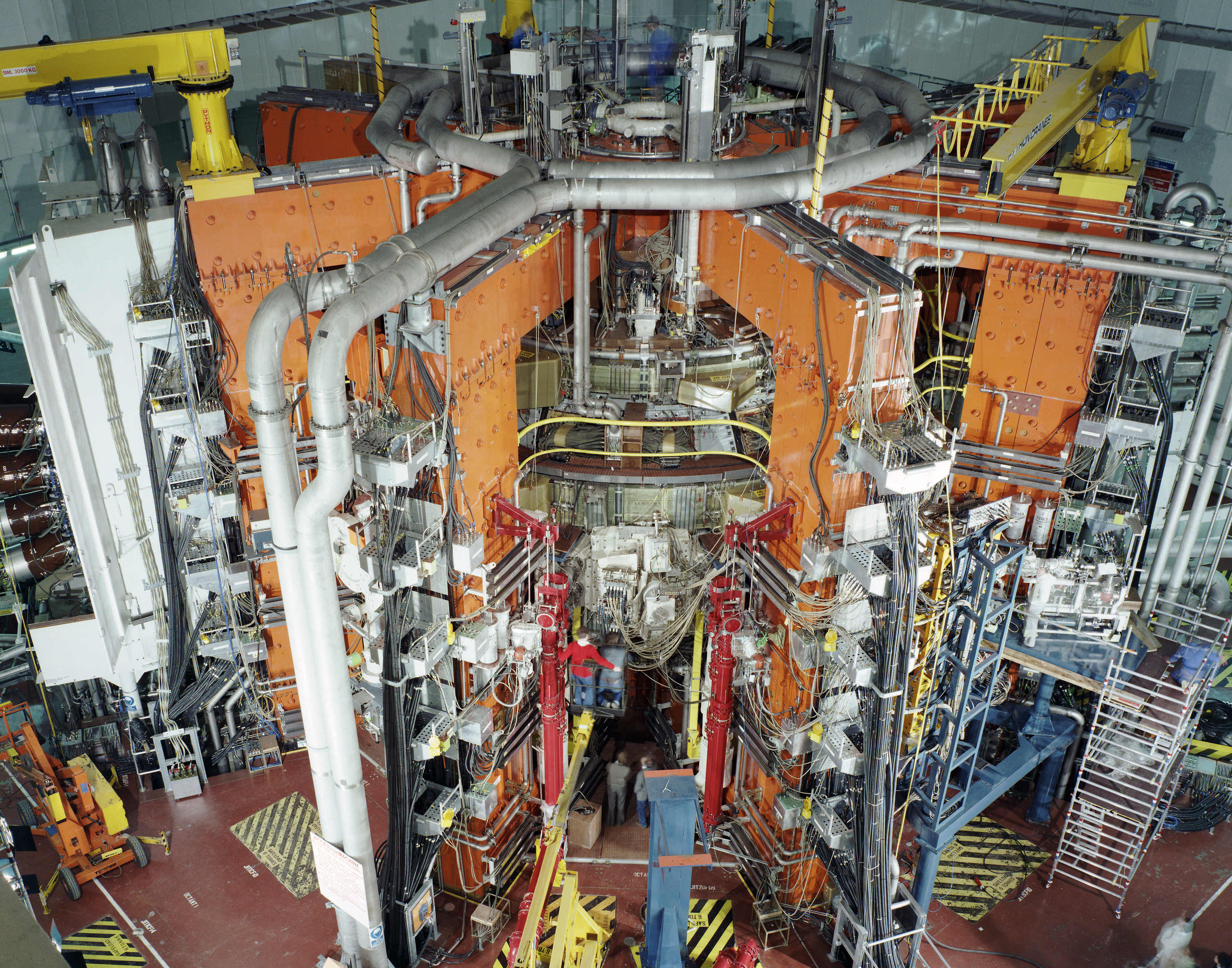 The Joint European Torus (JET) magnetic fusion experiment in 1991 At the heart of this jumble of machinery is a doughnut shaped vessel 6 metres across and 2.4 metres high, although this is obscured by the myriad heating, cooling and measuring systems which surround it. Some examples of these: the large orange limbs are iron, for concentrating the magnetic field that controls the hot gases inside the vessel, at temperatures up to 200 million degrees. The tall white tower in the right foreground houses the eight neutral beam heaters, which use 100 000 volts to shoot gas into the vessel. On the smaller white cylinder to its right are an array of mirrors for directing lasers into the hot gas to measure its temperature and density with Thompson Scattering. The white box in the left foreground is an apparatus to measure the energy of neutrons - the essential product of fusion. At far left the segmented white tower is the Pellet Injection Box, which fuels the experiment with tiny ice cubes of fuel at minus 260 degrees celsius. Next to that a white frame supports an array of black tubes which channel megawatts of microwave heating into the plasma. On top of the structure sit large water cooling pipes, and four yellow cranes for moving components around during maintenance.